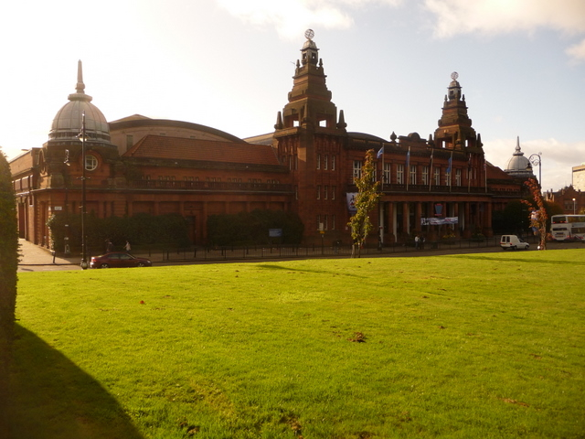 Glasgow: Kelvin Hall A sports centre including a large hall which this week hosted the Grand Prix professional snooker tournament.